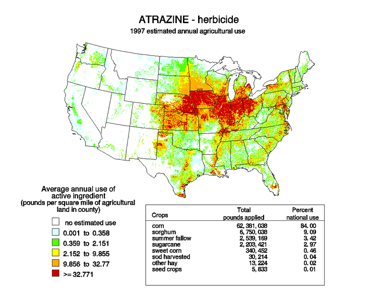 Atrazine (pesticid) map of use, USA, Originally From: New URL